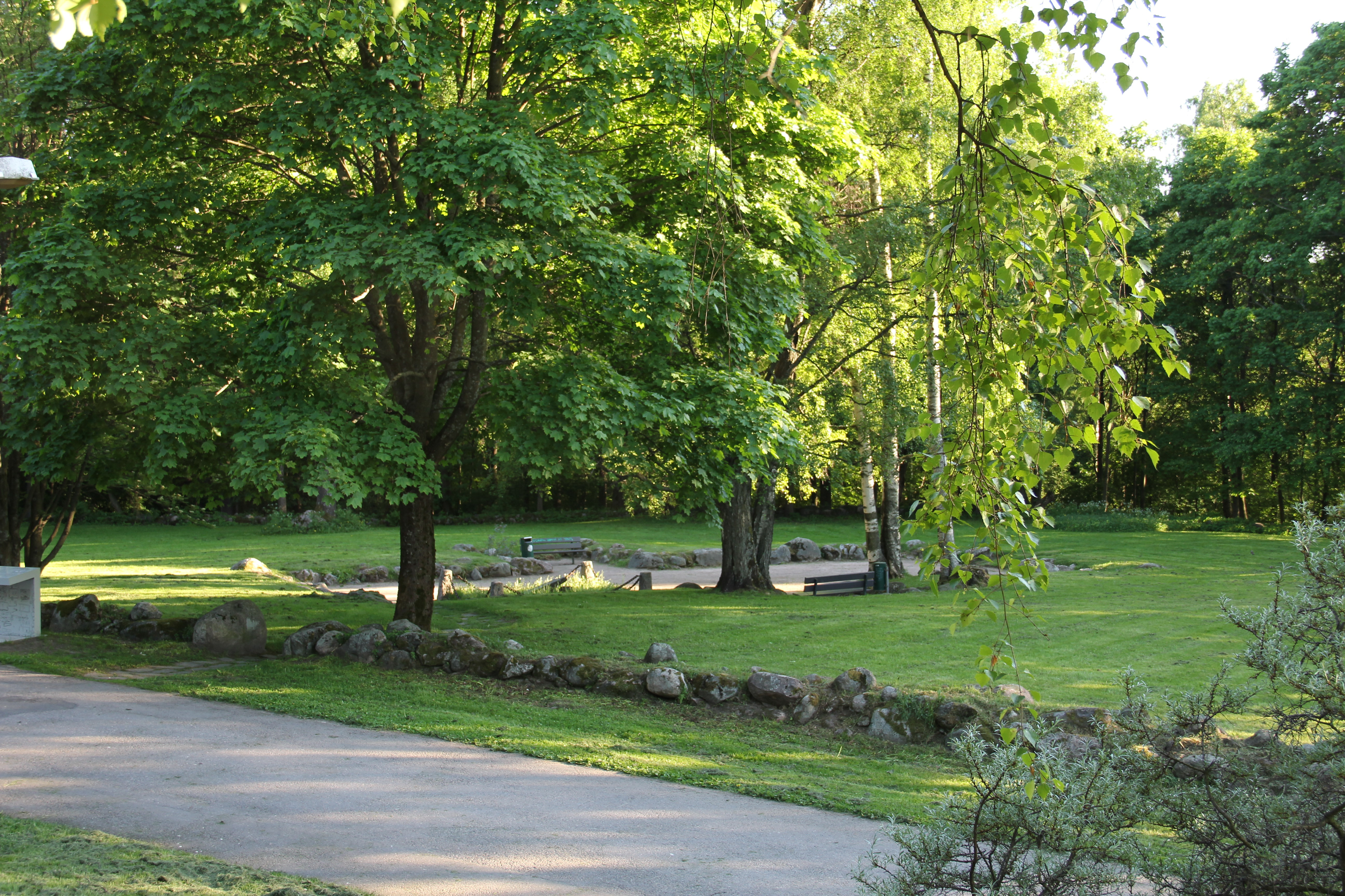 Hans van Sanden gravestone (1890) - Robert Stigell. General view of the Helsinki old church ruins, Kirkkorinne, 9 Vanhankaupungintie, Helsinki, Finland.